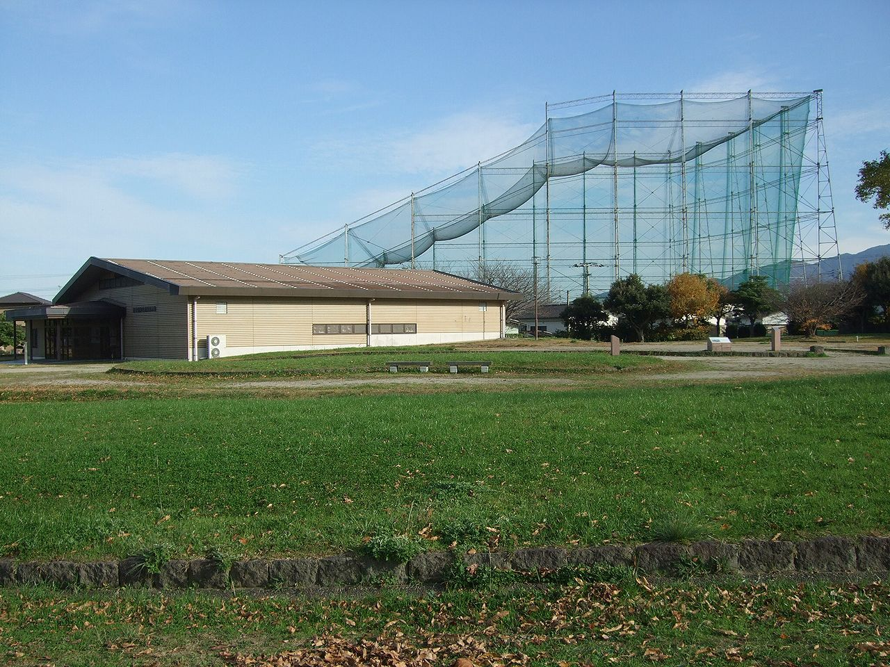 Nokata Ruins, Nishi Ward, Fukuoka City, Fukuoka, Japan.